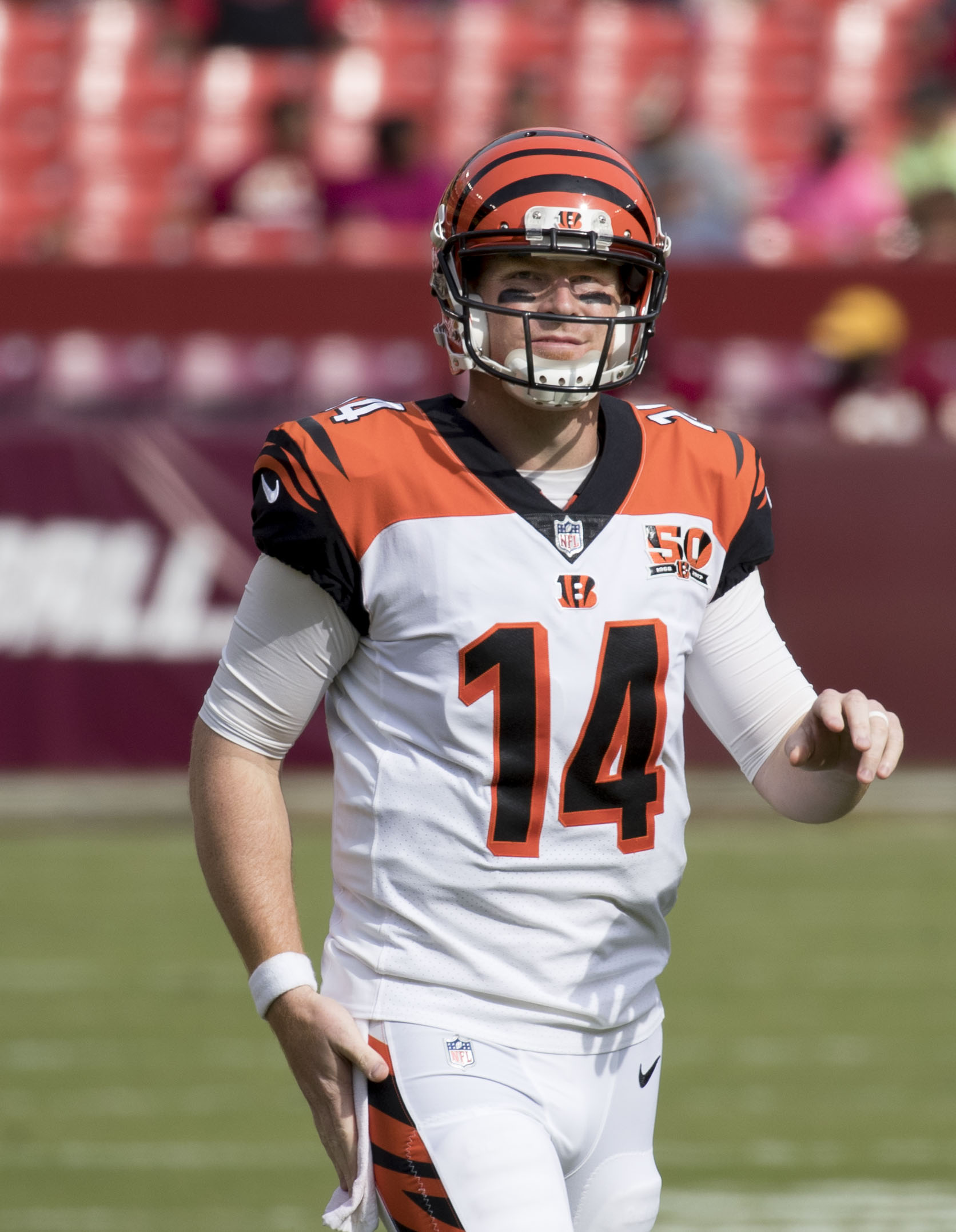 Cincinnati Bengals quarterback, Andy Dalton, playing against the Washington Redskins in a preseason game on August 27, 2017.